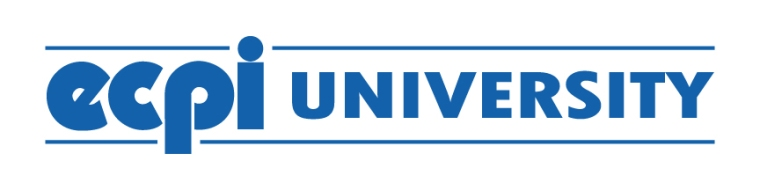 The ECPI University logo.